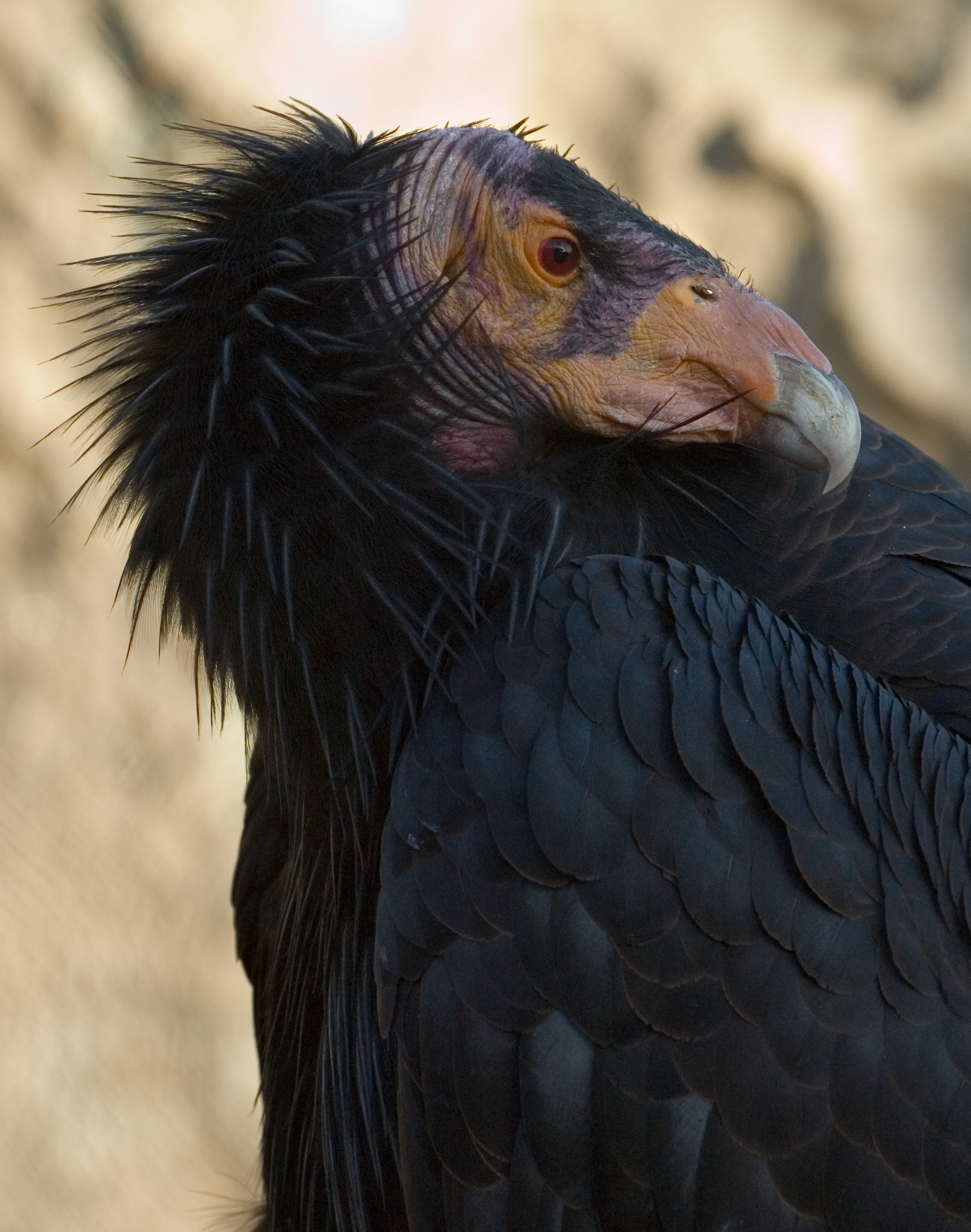 A California Condor at the Condor Ridge exhibit of the San Diego Wild Animal Park. Photo by Chuck Szmurlo taken December 11, 2006 with a Nikon D70 and a Nikon 70-200 f2.8 lens.